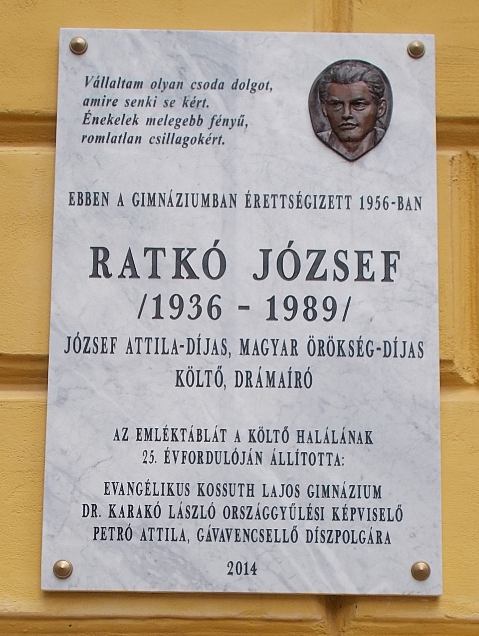 Plaque-relief on the facade of Lutheran high school or Kossuth Lajos high school It was built in eclectic style in 1887 by plans of Bobula János and extended in around 1890. - 17-19. Szent István Street, Nyíregyháza, Szabolcs-Szatmár-Bereg County, Hungary.